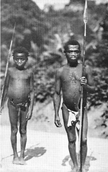 Pygmy man and his son